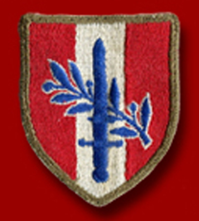 US Forces in Austria